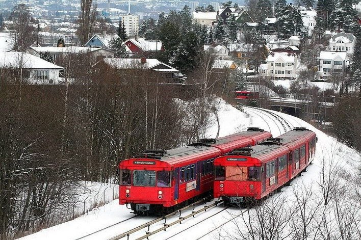 Two T1000 trains (1320 adn 1327) on the Lambertseter Line of the Oslo Metro near Brynsenteret.